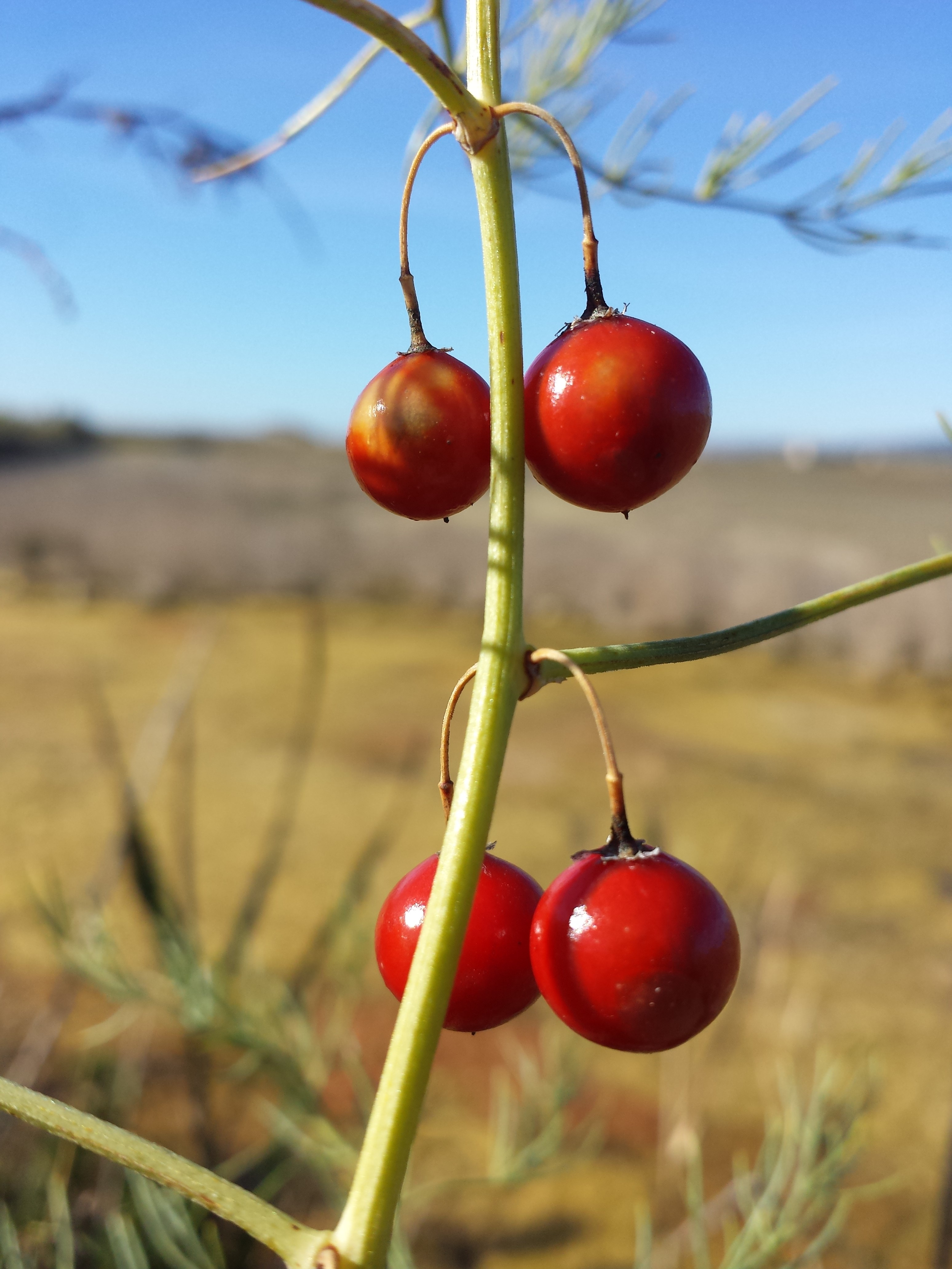 Infructescence Taxonym: Asparagus maritimus ss Rottensteiner: Exkursionsflora für Istrien ISBN 978-3-85328-067-6 Location: abandoned saltworks next to Sečovlje, community Piran, Istria, Slovenia Habitat: slope